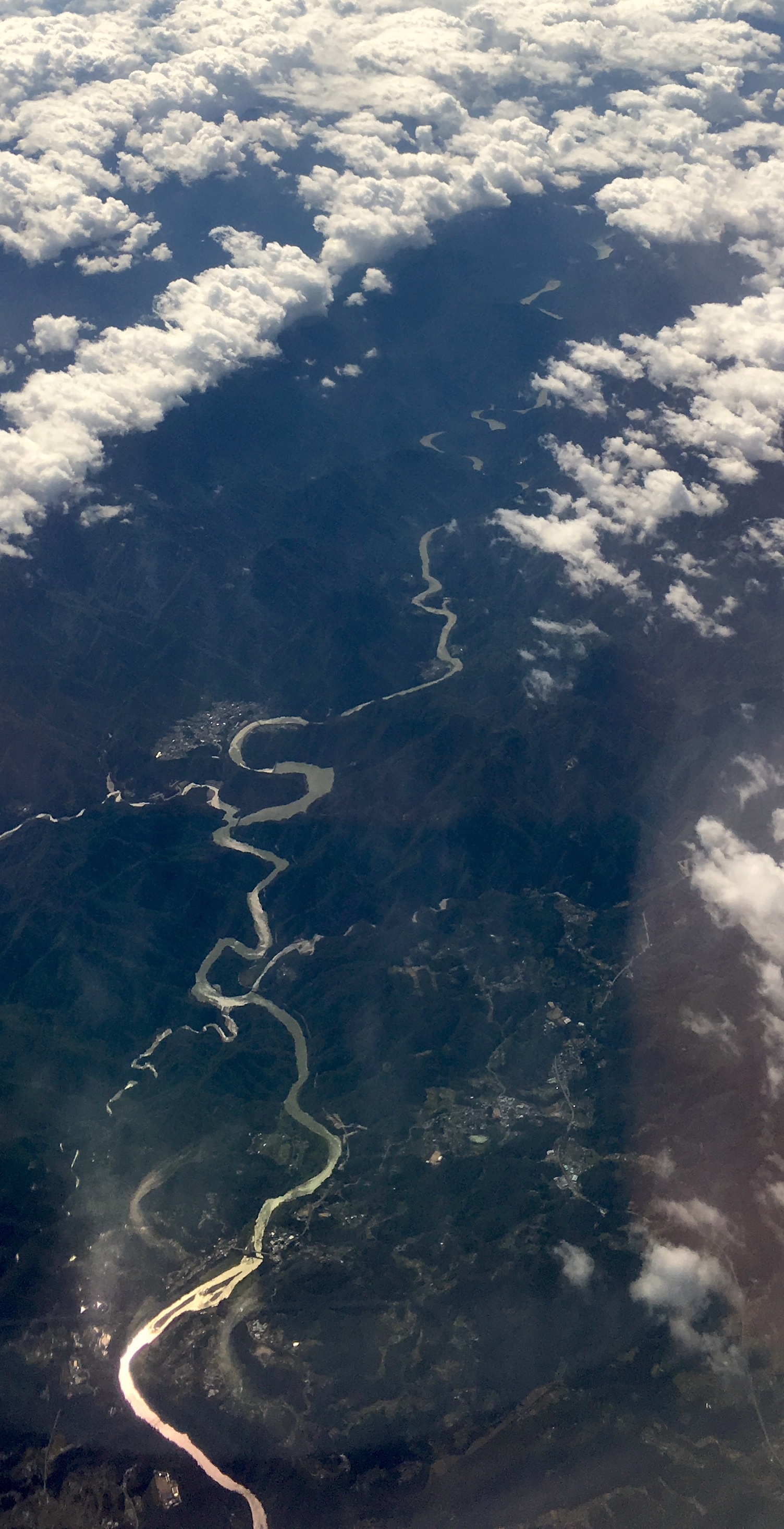 Tenryū River (天竜川) (Thanks to K's lens)